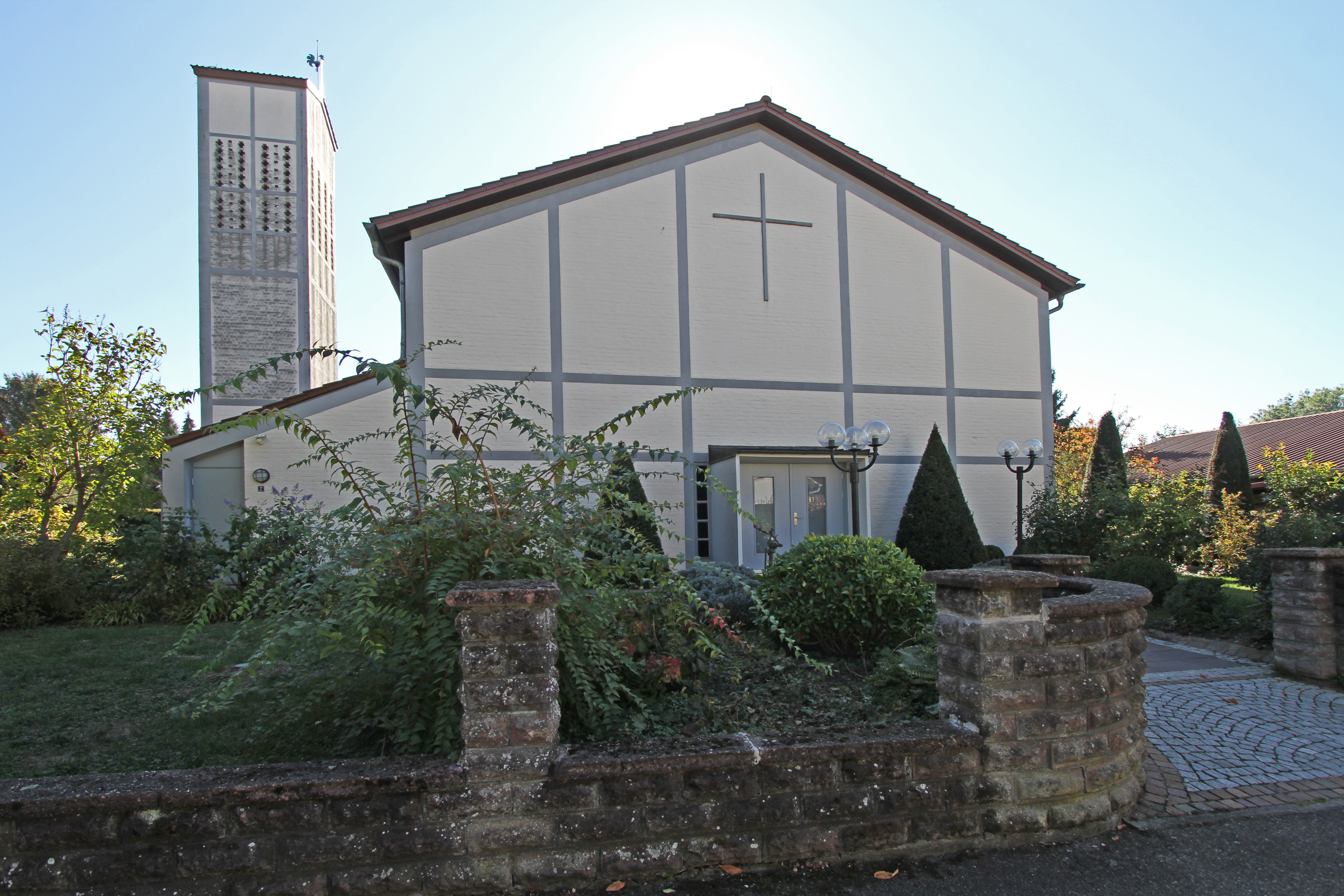 Protestant church in Rheinau-Helmlingen.